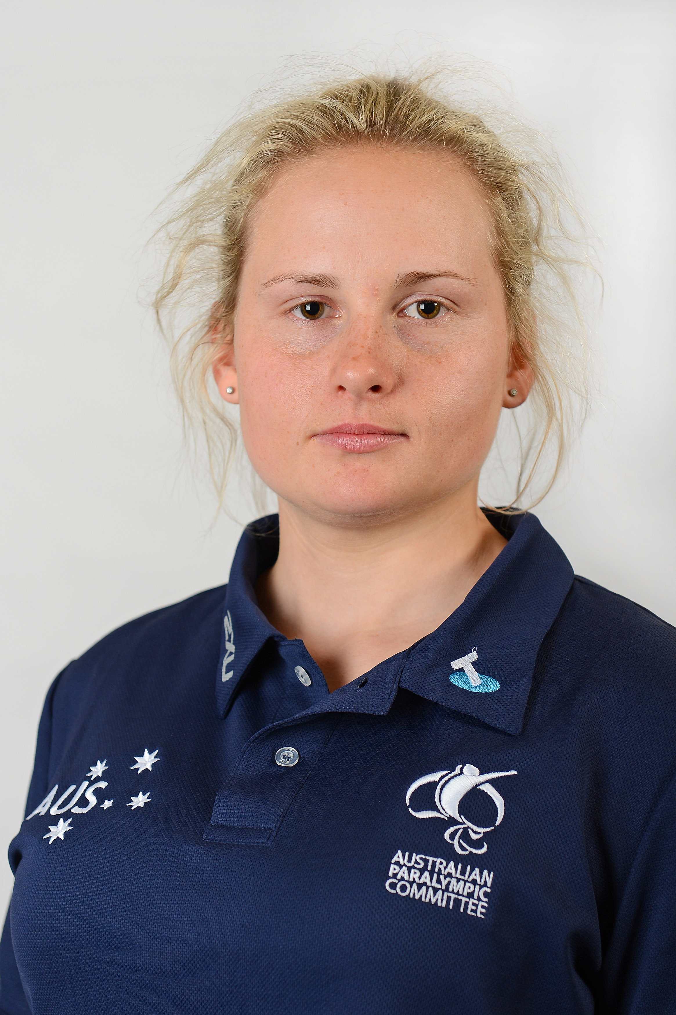 Portrait of Australian Skier Victoria Pendergast 2014 Australian Paralympic Team Athlete